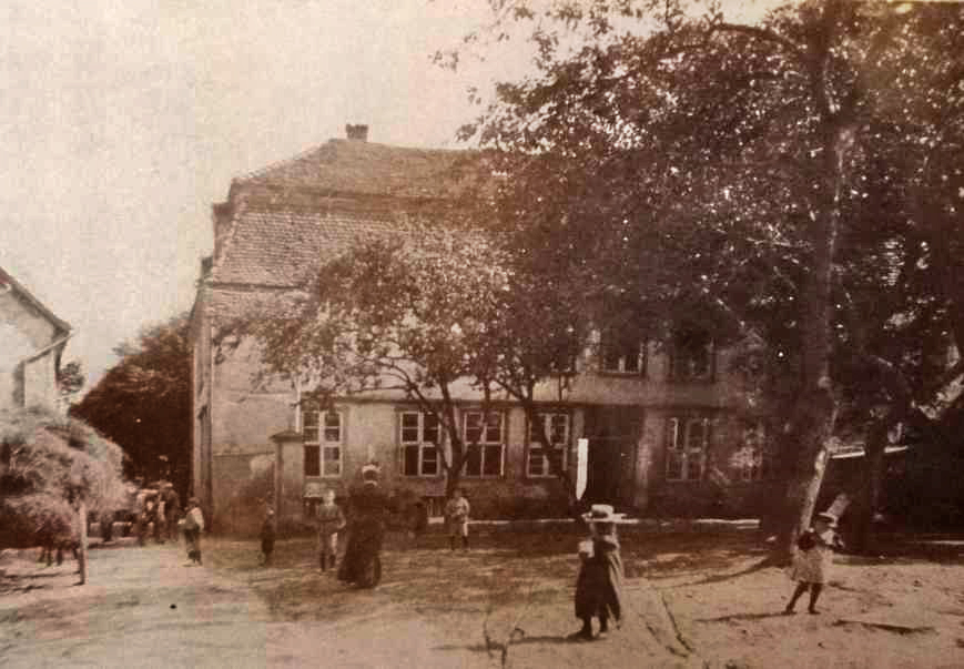 Wohnhaus der Familie Vermehren, Domplatz Güstrow.